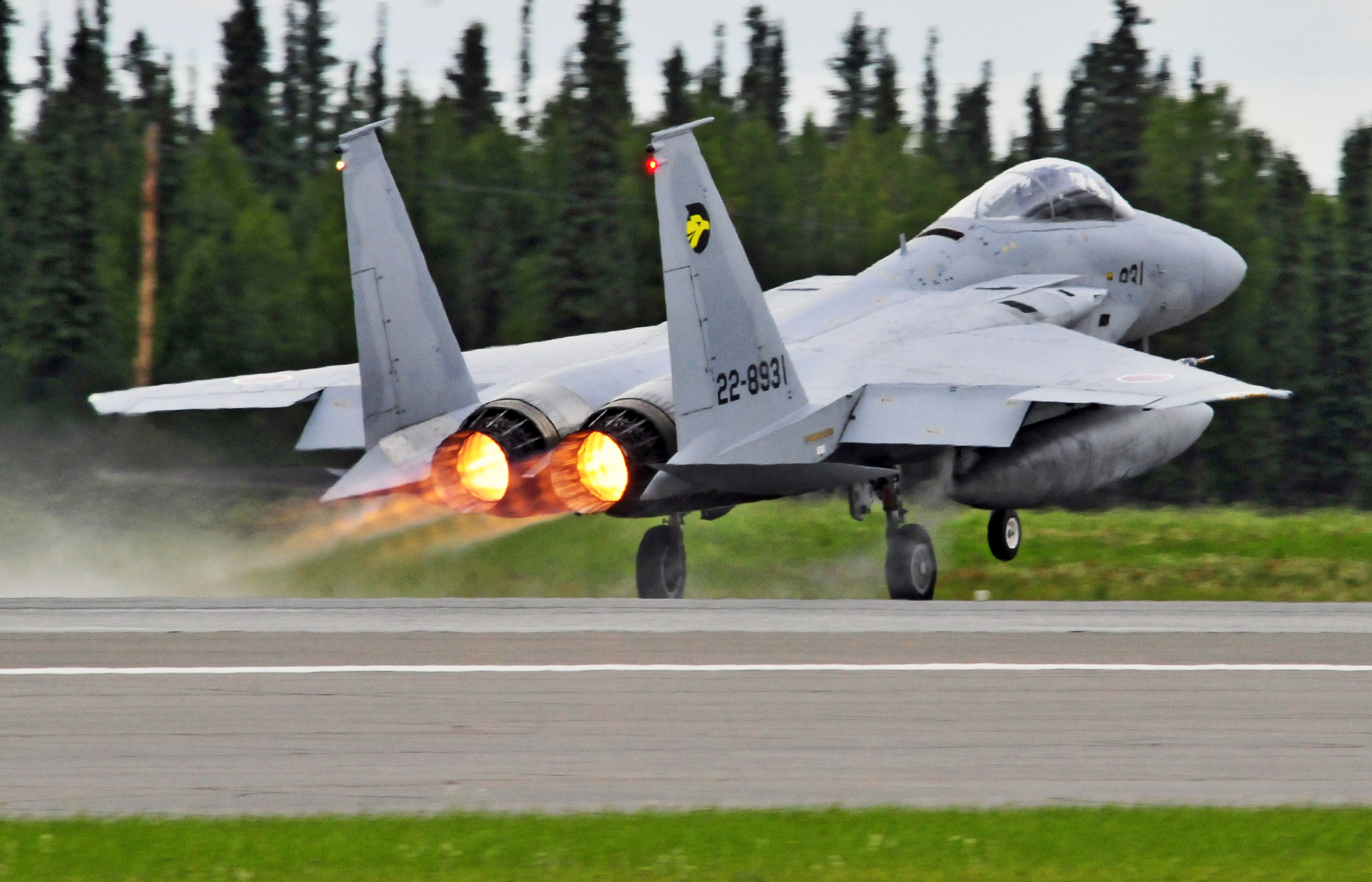 An F-15J Eagle fighter jet launches from the runway during RED FLAG-Alaska 11-2 July 15, 2011, Eielson Air Force Base, Alaska. The F-15 Eagle forms part of the Japan Air Self Defense Force fighter-interceptor aircraft inventory used to engage hostile aircraft. (U.S. Air Force photo by/Staff Sgt. Miguel Lara) Nikon D300